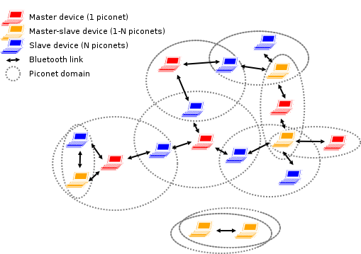 This diagram shows the different forms a Bluetooth network can adopt. A device can be the master of at most one piconet, and it can act as a slave in any number of piconets. The overlapping of piconets forms a scatternet. Note two scatternets are pictured, one of them composed by two piconets, where the master of one acts as the slave of the other.